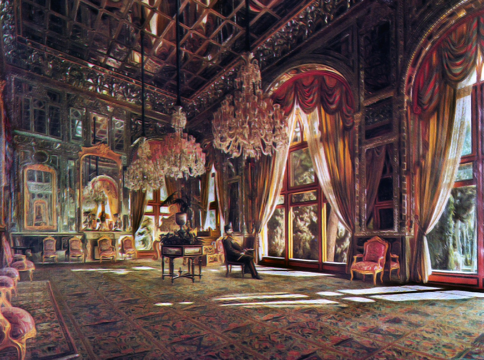 Mirror Hall